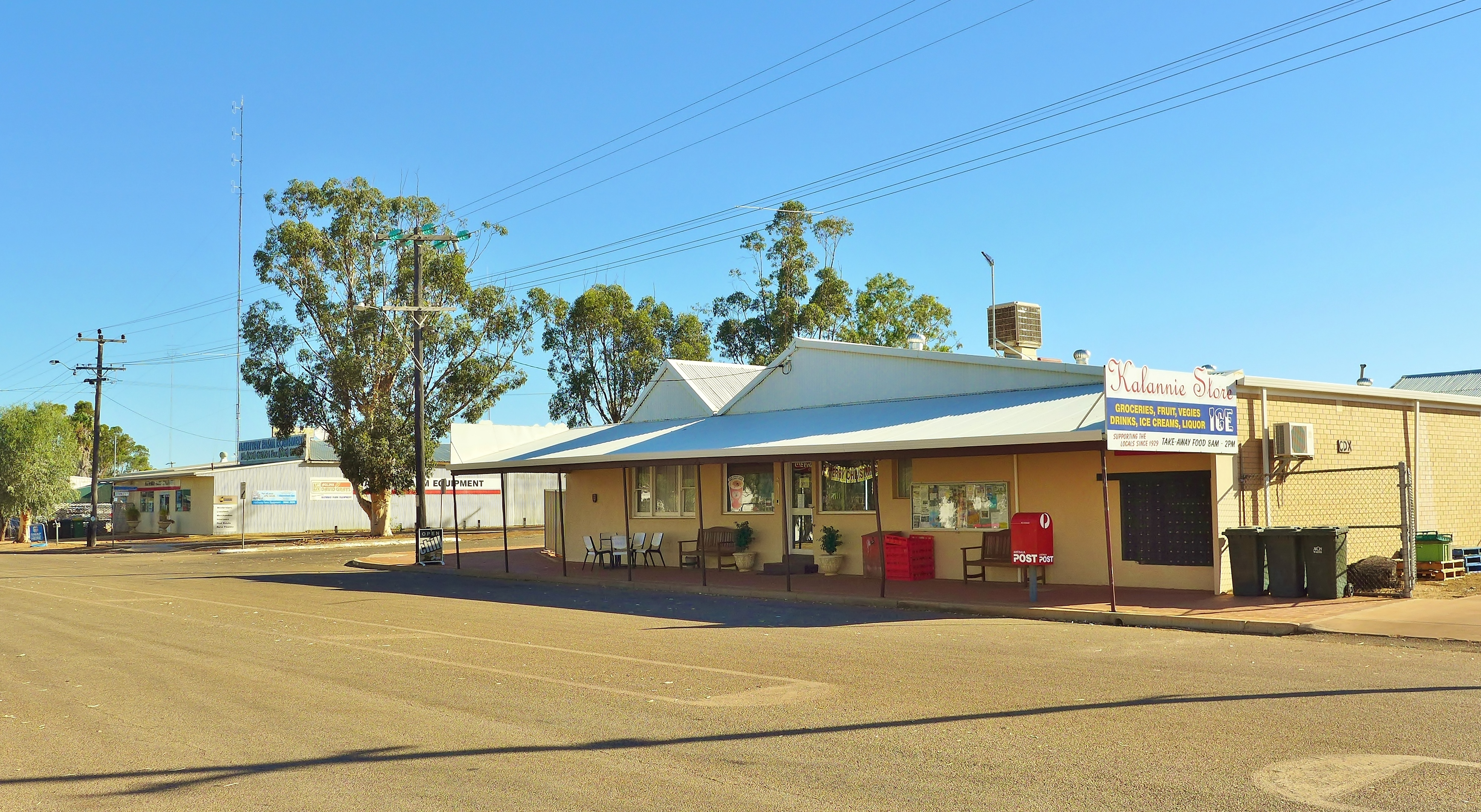 View of Roche Street, Kalannie, Western Australia, featuring the Kalannie Store.